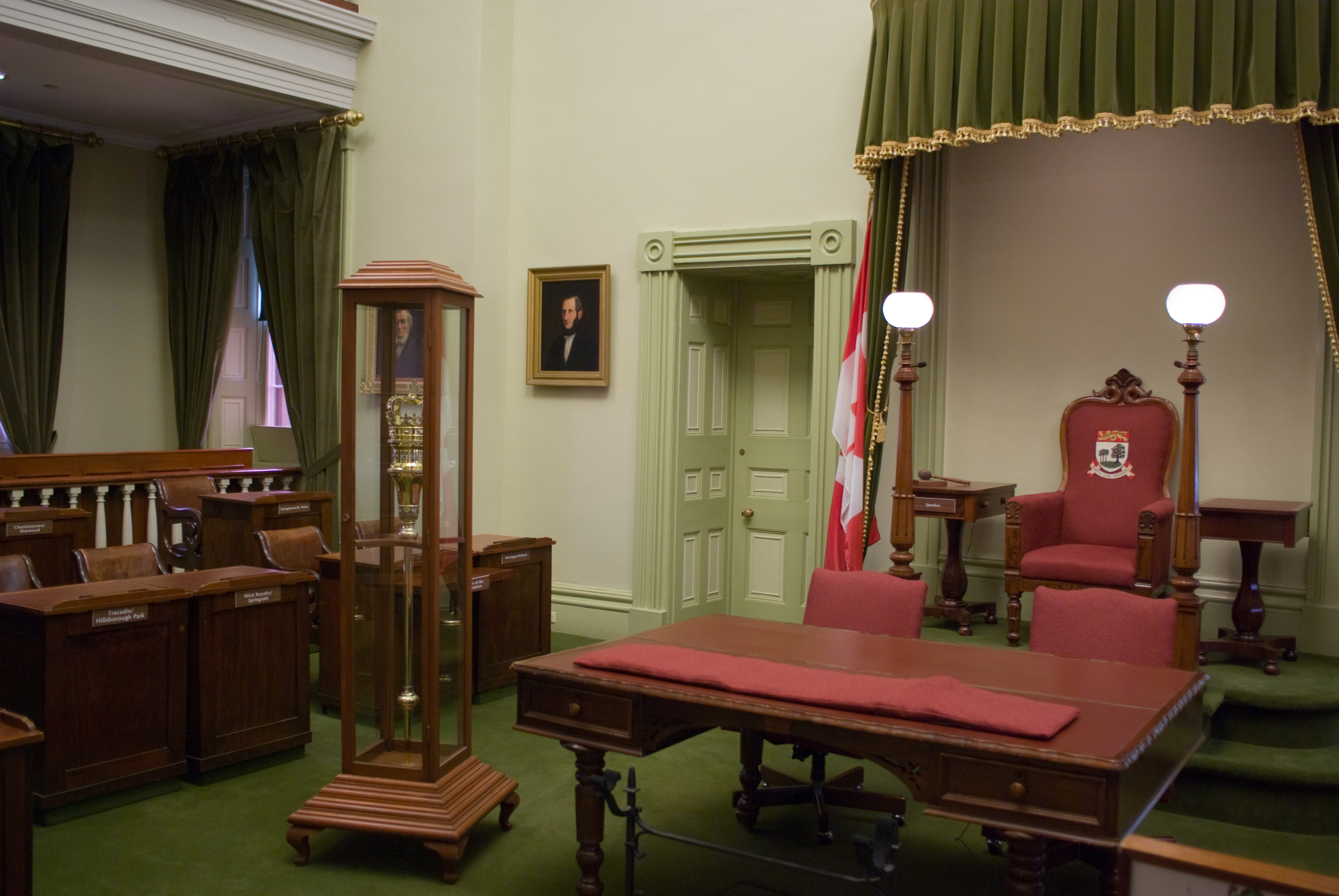 While much of Province House has been turned over to Parks Canada to serve as a memorial to the Charlottetown Conference, the Legislative Assembly Chamber is still used by Prince Edward Island's legislature to this day. The ornate chair in the center of the room belongs to the Speaker. Typically, the government sits to the Speaker's left (not pictured), while the opposition sits to his right. However, because the Liberals currently have a majority of 24-3, the Liberal backbenchers have spilled over to the right side as well. Only the three seats closest to the Speaker actually belong to the Progressive Conservatives. During the Charlottetown Conference, a ball for the delegates was held in the Legislative Assembly Chamber.